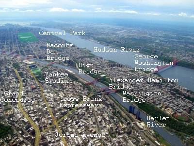 Looking southwest at New York City from the plane/by air.